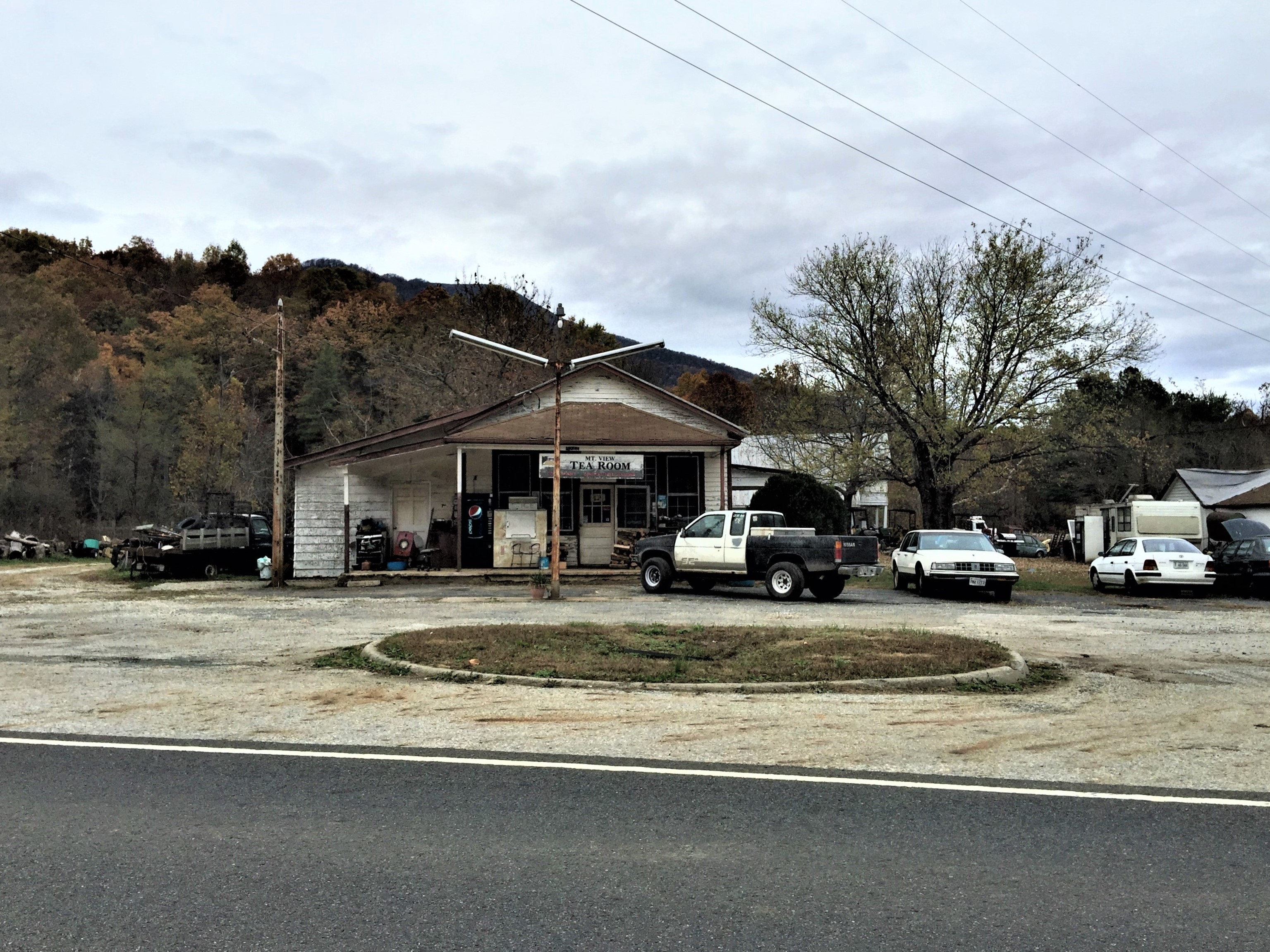 Mountain View Tea Room on Crabtree Falls Highway in Tyro, Nelson County, Virginia, USA